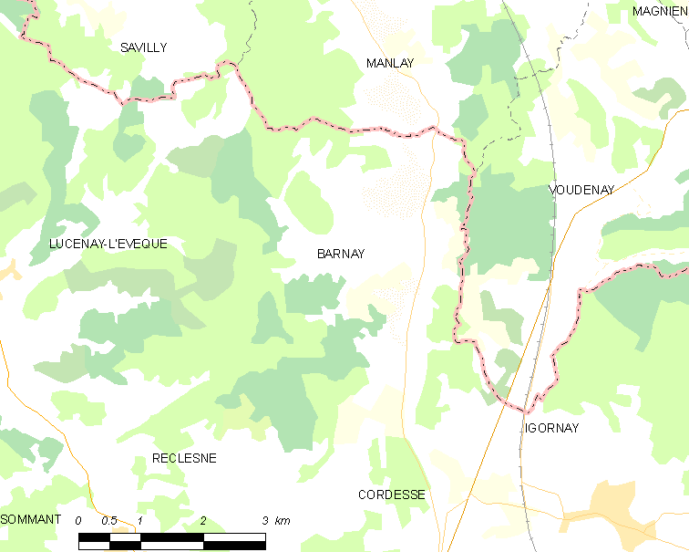 Map of French municipality